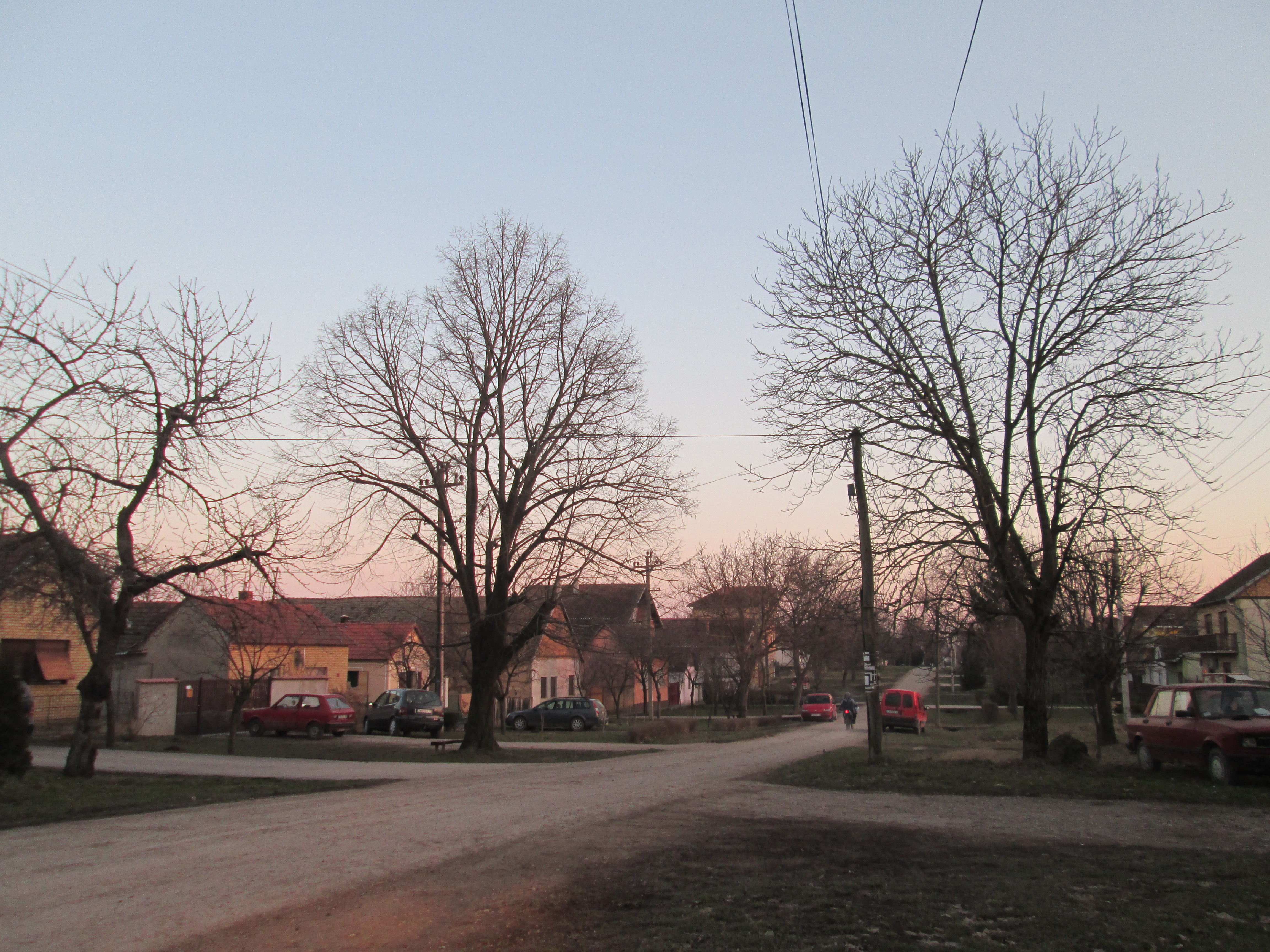 View over the village, Jarkovci Српски (ћирилица): Поглед на село, Јарковци